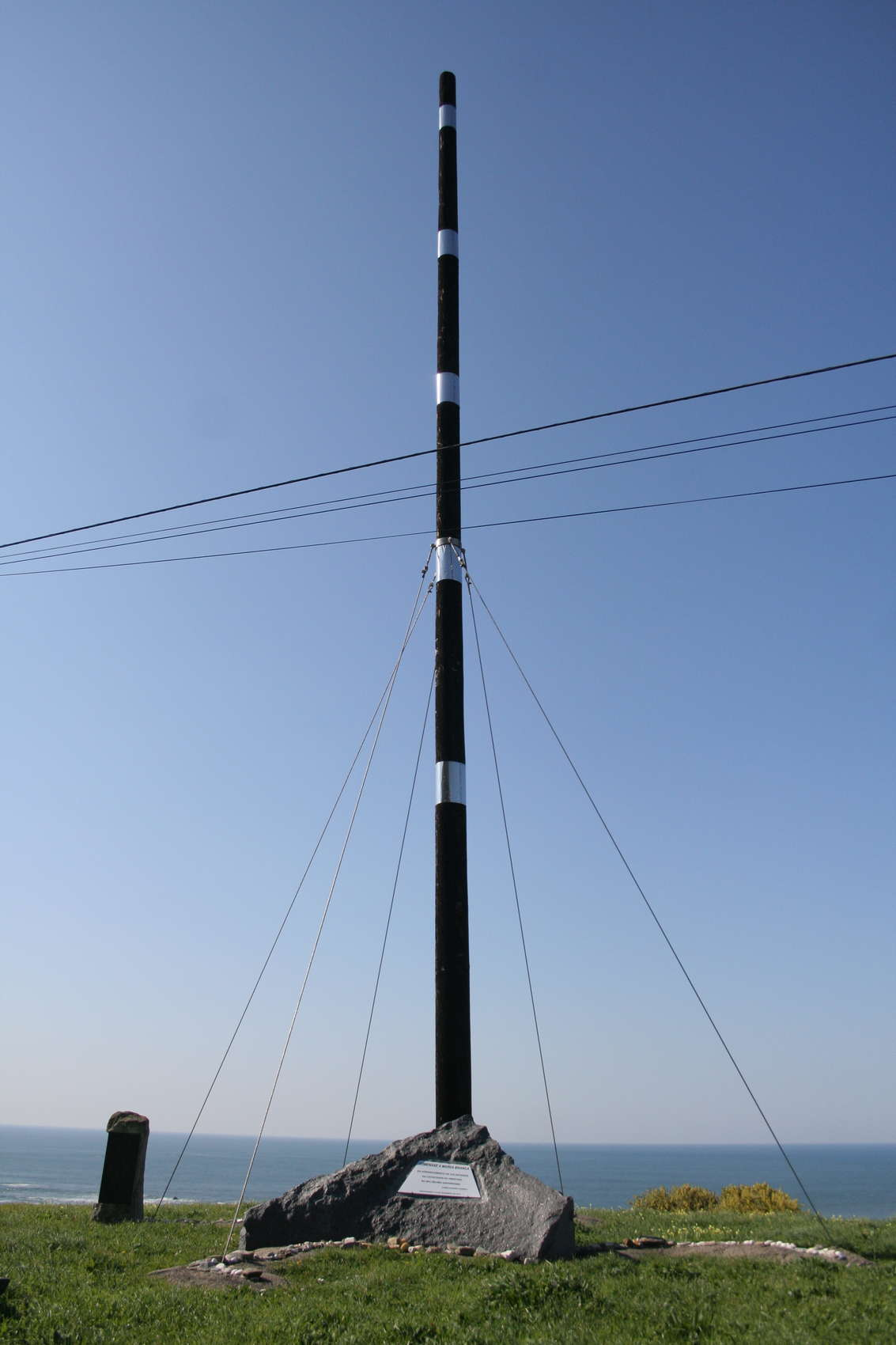 Homage to the "Marea blanca" by Xabier Garrido Carrera